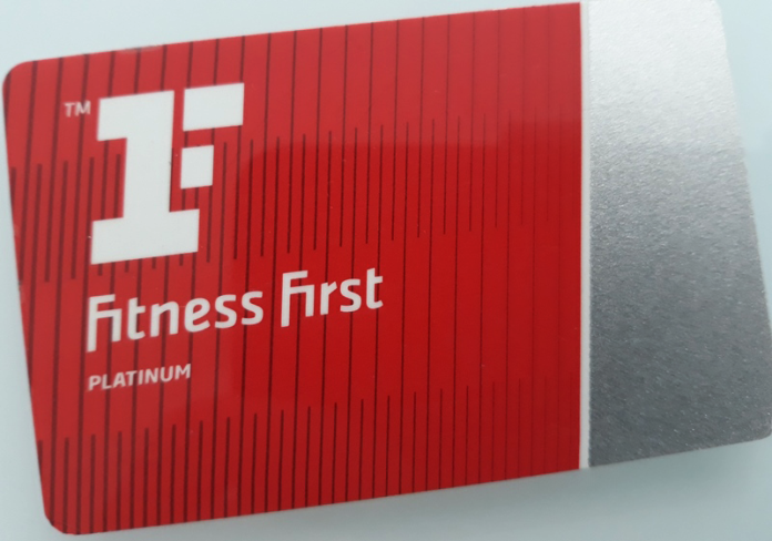 A platinum membership card issued to members of Fitness First in Australia taken in 2018.